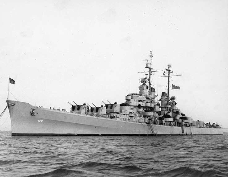 The U.S. Navy light cruiser USS Spokane (CL-120) at anchor, circa 1946-1948.